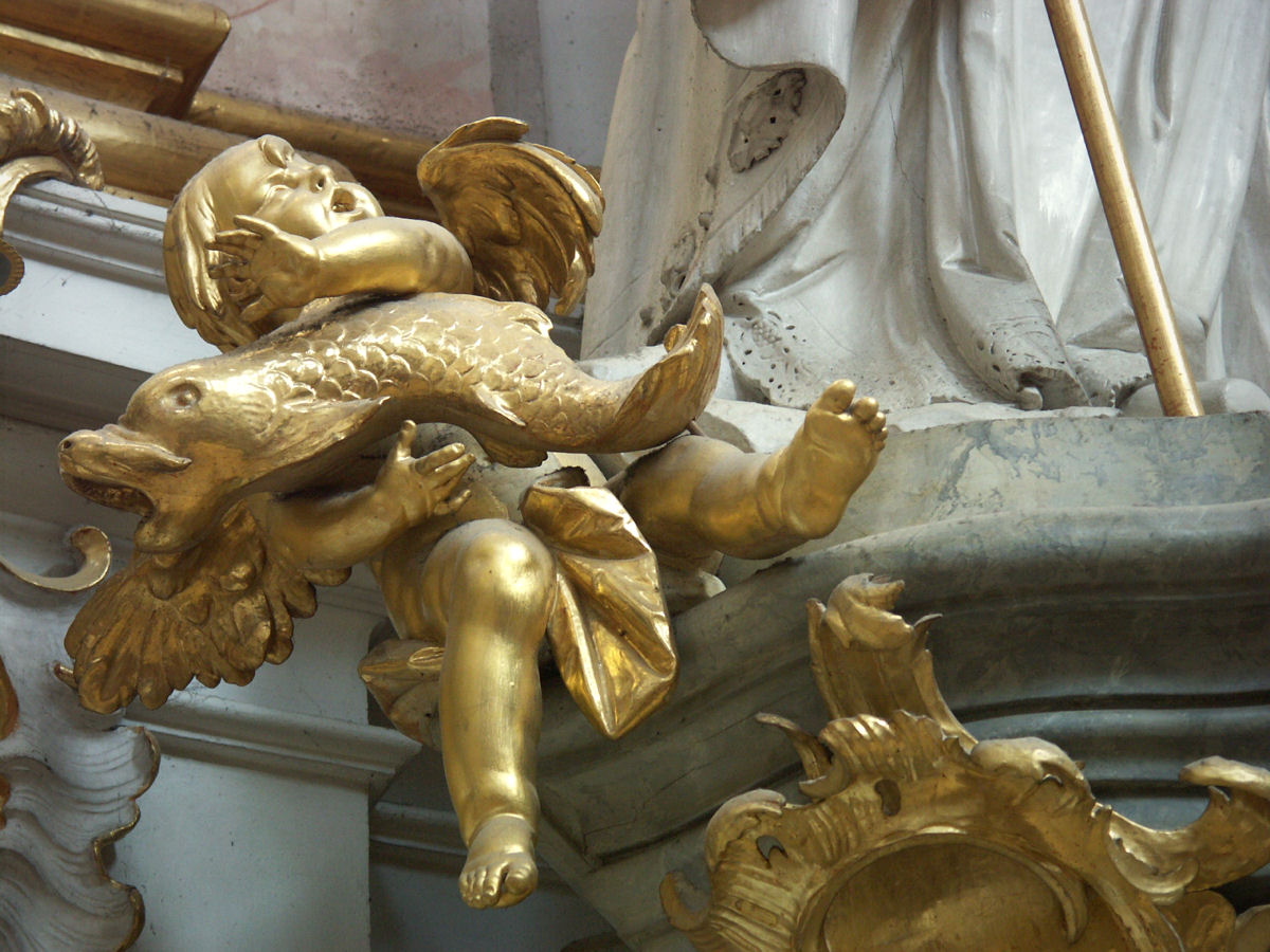 Attribute of Saint Ulrich Ettal Abbey Native nameKloster EttalLocationEttal, Upper Bavaria, GermanyCoordinates47° 34′ 09.33″ N, 11° 05′ 40.42″ E Established14th century date QS:P,+1350-00-00T00:00:00Z/7 Web page Authority control : Q253359 VIAF: 123231235 ISNI: 0000 0001 0719 7158 LCCN: n85339281 GND: 1031761-2 NKC: kn20140319007 WorldCat institution QS:P195,Q253359